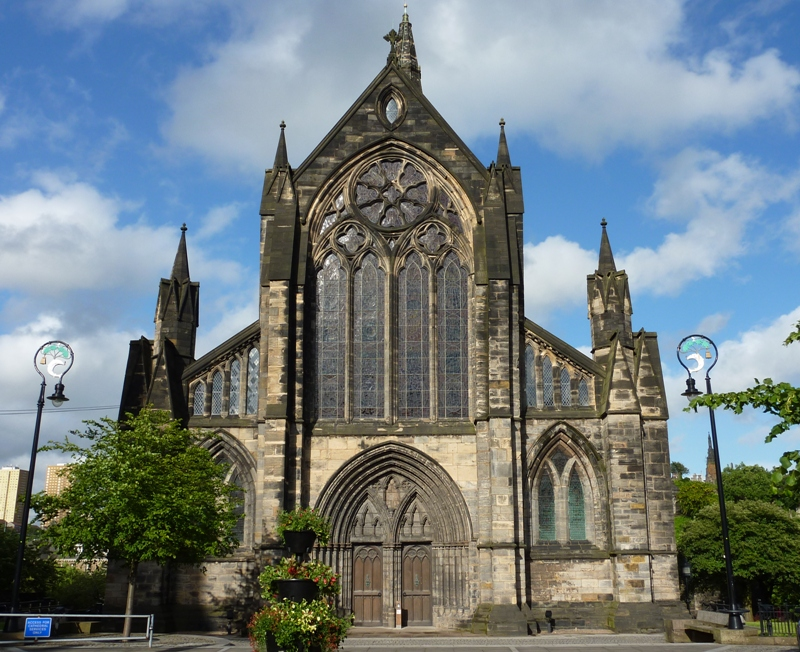 Glasgow Cathedral, Glasgow, Scotland - from the west